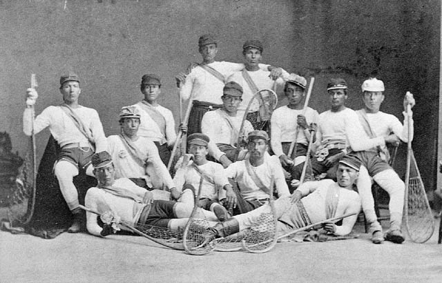 Title / Titre : Men from the Mohawk Nation at Kahnawake (Caughnawaga) who were the Canadian lacrosse champions in 1869 / Des hommes de la nation mohawk à Kahnawake (Caughnawaga), les champions de la crosse au Canada en 1869 Creator(s) / Créateur(s) : James Inglis Date(s) : 1869 Reference No. / Numéro de référence : MIKAN 3194108, 3629758 Location / Lieu : Montreal, Quebec, Canada / Montréal, Québec, Canada Credit / Mention de source : James Inglis. Library and Archives Canada, C-001959 / James Inglis. Bibliothèque et Archives Canada, C-001959